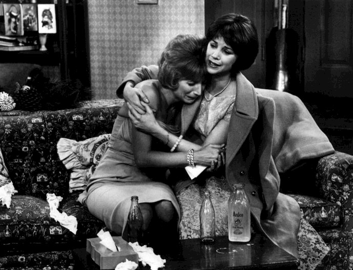 Publicity photo of Penny Marshall and Cindy Williams from Laverne & Shirley. In this episode, an ailing Shirley comforts Laverne when her New Year's Eve date dumps her.